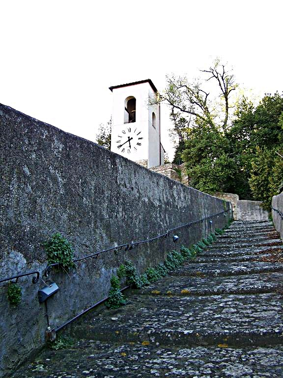 fortress